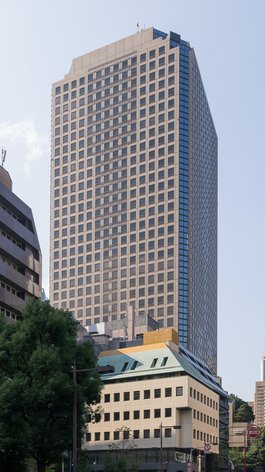 Shiroyama Trust Tower in Minato Ward, Tokyo, Japan